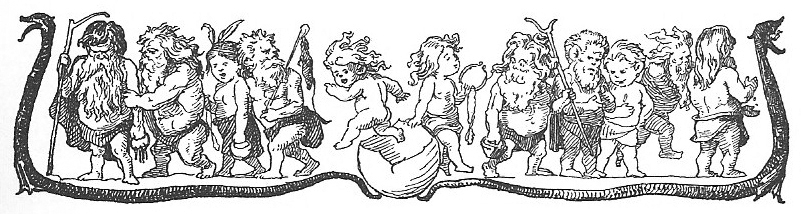 An illustration accompanying the list of dwarven names found in Völuspá.